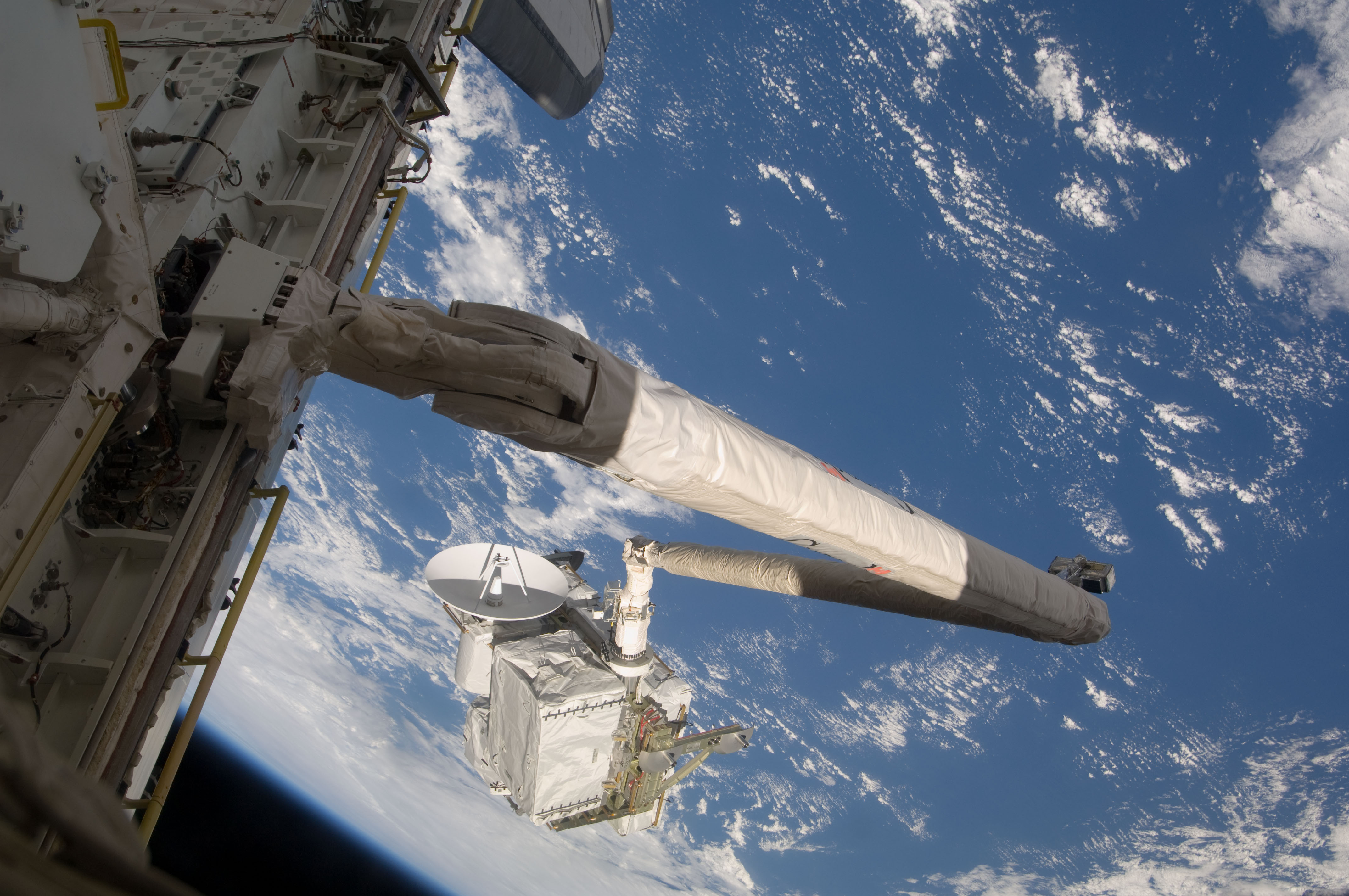 Backgrounded by a blue and white Earth, the remote manipulator system (RMS) arm of the Space Shuttle Endeavour, is about to hand off the Integrated Cargo Carrier (ICC) to the International Space Station (out of frame). The ICC is an unpressurized flat bed pallet and keel yoke assembly that was carried into space in the shuttle's payload bay.